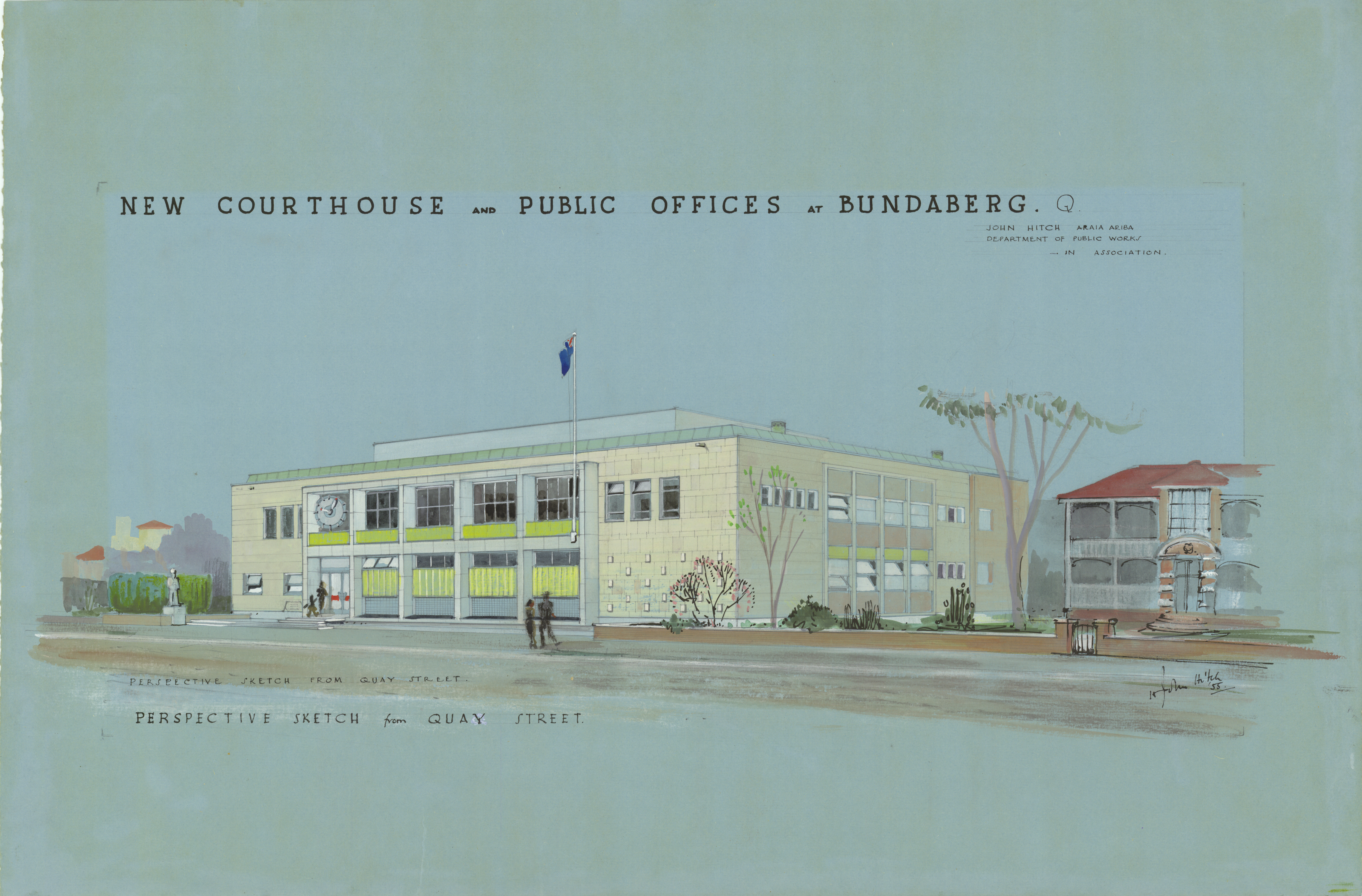 Proposed Bundaberg Court House and Public Offices, 1958